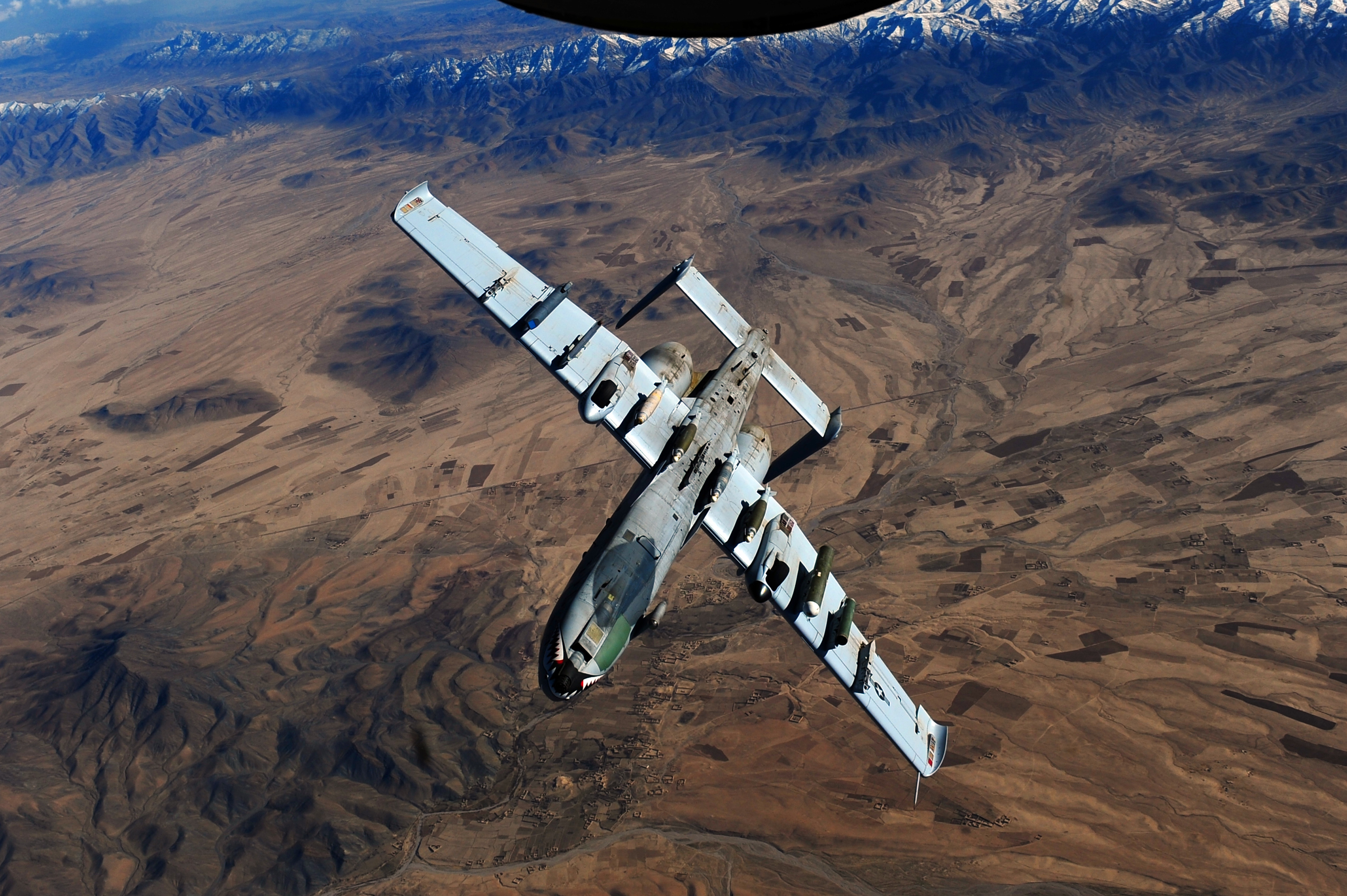 An A-10 Thunderbolt II from the 23rd Fighter Group, Moody Air Force Base, Ga., peels away after being refueled from a KC-135 Stratotanker, assigned to the 340th Expeditionary Air Refueling Squadron, while flying over Afghanistan in support of Operation Enduring Freedom, Feb. 26, 2011. (U.S. Air Force photo/Master Sgt. William Greer)